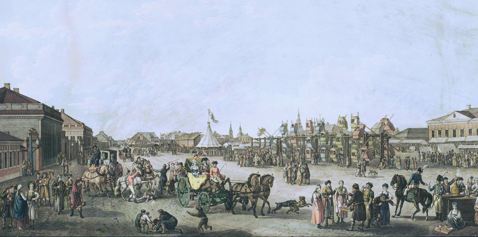 Coloured plate 9 from the definitive Twelve Views of Moscow by De la Barthe.